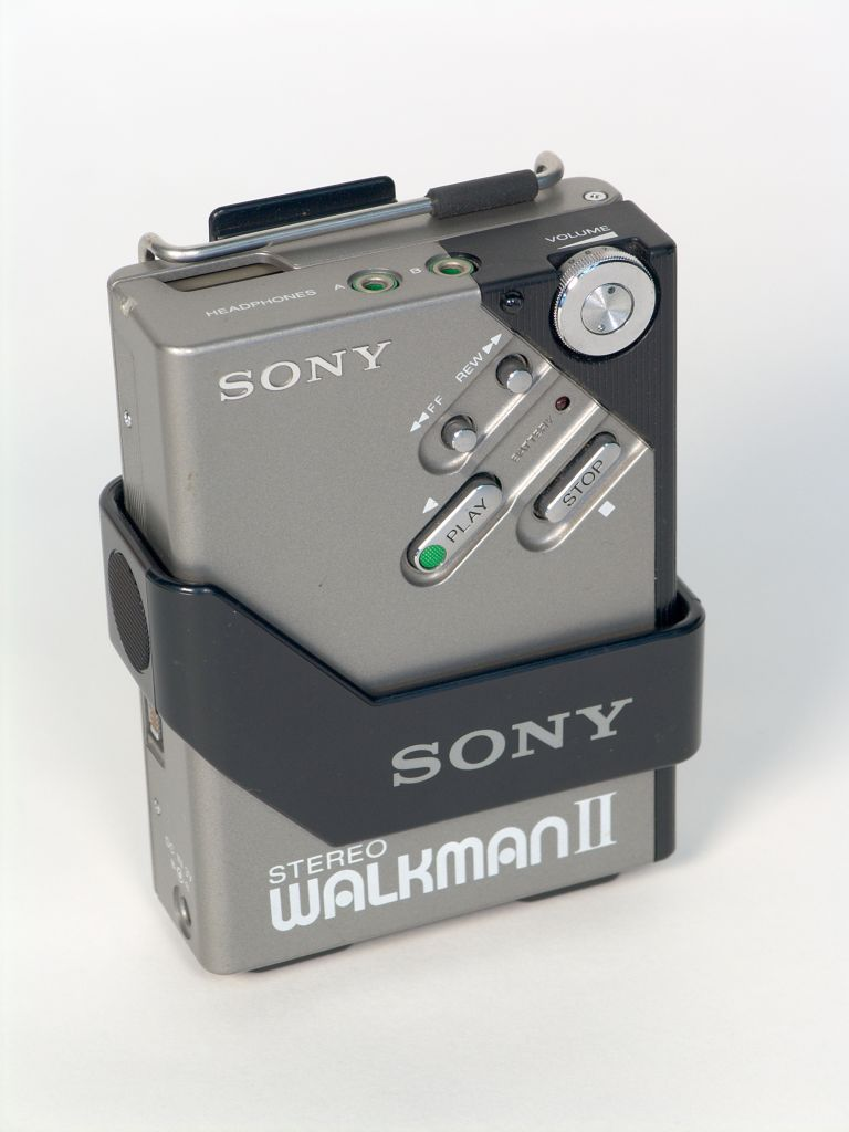 'Stereo Tape Cassette Player, WM2' Sony Walkman. Grey plastic rectangular box with black plastic trim. Marked in white 'Sony Stereo Walkman' with Two small buttons marked 'FF REW' a green button marked 'PLAY' and a silver button marked 'STOP'. White metal alloy circular volume control. Mains socket. Belt clip on rear and black textile carrying strap. With white metal alloy headphones with orange foam rubber ear pads and grey plastic cable with circular orange clip part way down cable and marked in white 'walkman'. Editing undertaken: Unsharp Mask